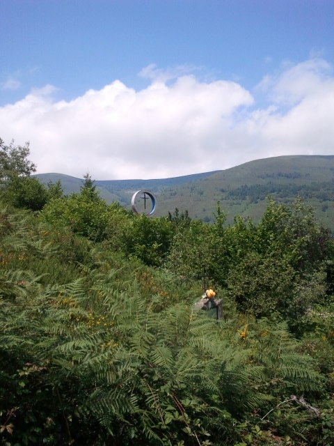 Vista de la Cruz de la Ermita de San Sebastián de Garabandal, construida con motivo de la aparición de Nuestra Señora, la Santísima Virgen María.